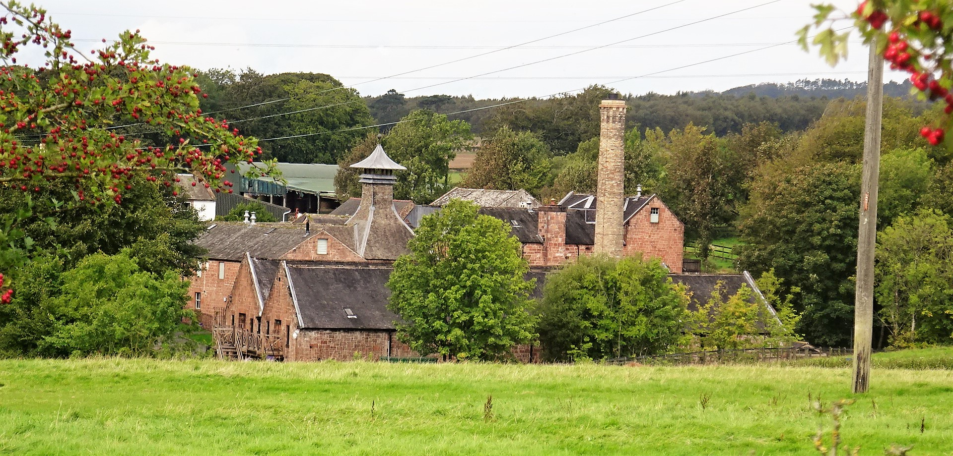 Annandale Distillery, Annan, Dumfries & Galloway. View from the main road.